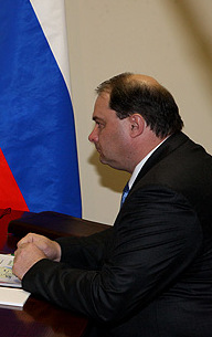 IRKUTSK. Dmitry Medvedev with Governor of Irkutsk Region Igor Esipovsky.